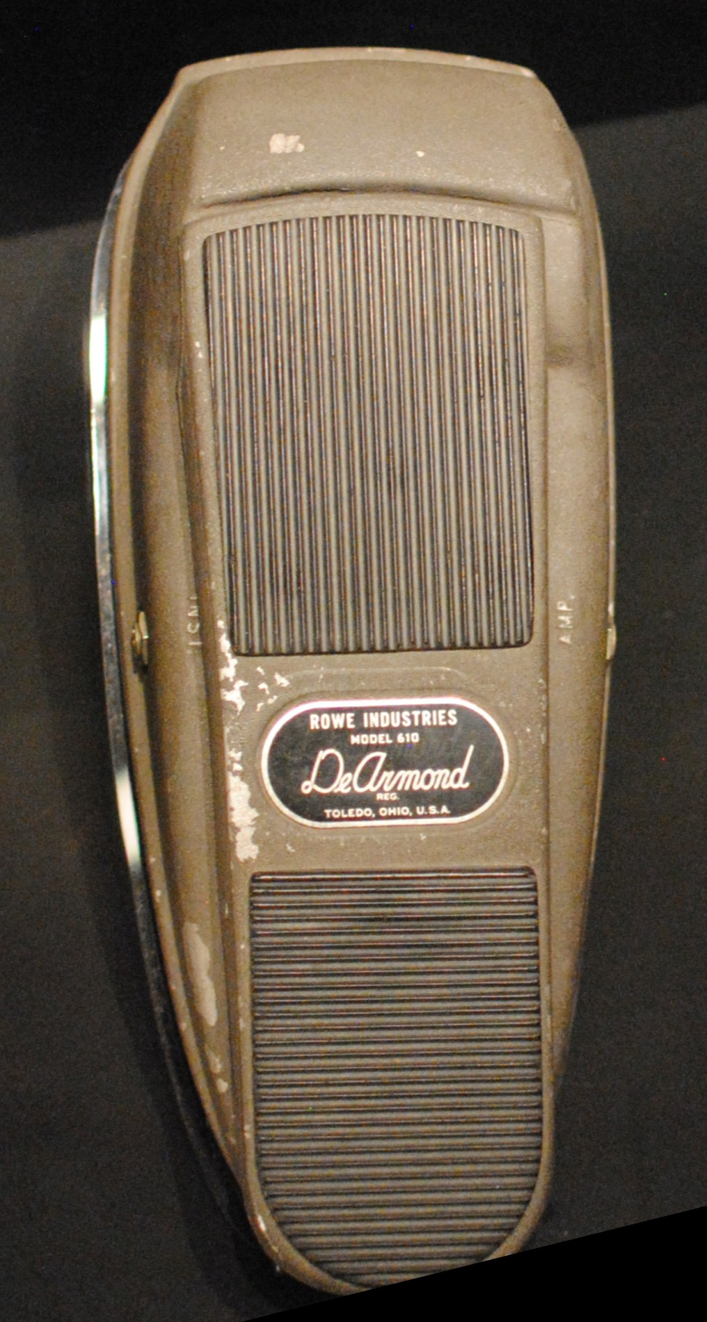 David Gilmour's 'De Armond 610 tone volume' guitar effects pedal (1970), displayed at the Pink Floyd: Their Mortal Remains exhibition at the Victoria and Albert Museum. Partially obscured by exhibition display stand.